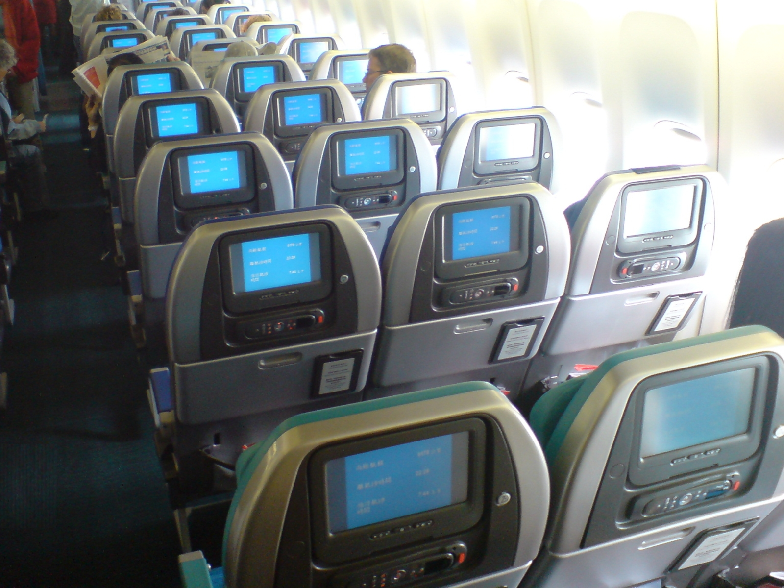 Cathay Pacific clam shell seats (where the back of a seat stays essentially in the same position, even if the person in it reclines their seat). The advantages of clamshells for leg room for the passenger behind were a big feature in Cathay Pacific's advertising of the new seats - though people with very long legs, like the image author, still have some leg room issues in economy class even with clamshell seats...